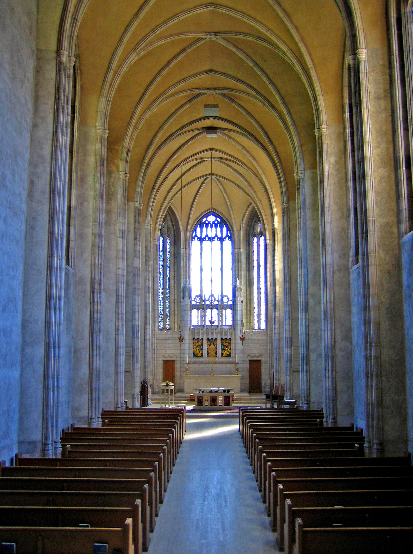 Interior of the Gothic chapel in Trinity College, University of Toronto.